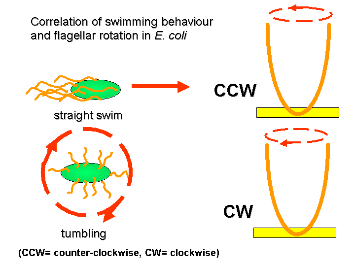 Copy of File:ChtxCCW_CW.png edited to show CCW and CW arrows going different directions.